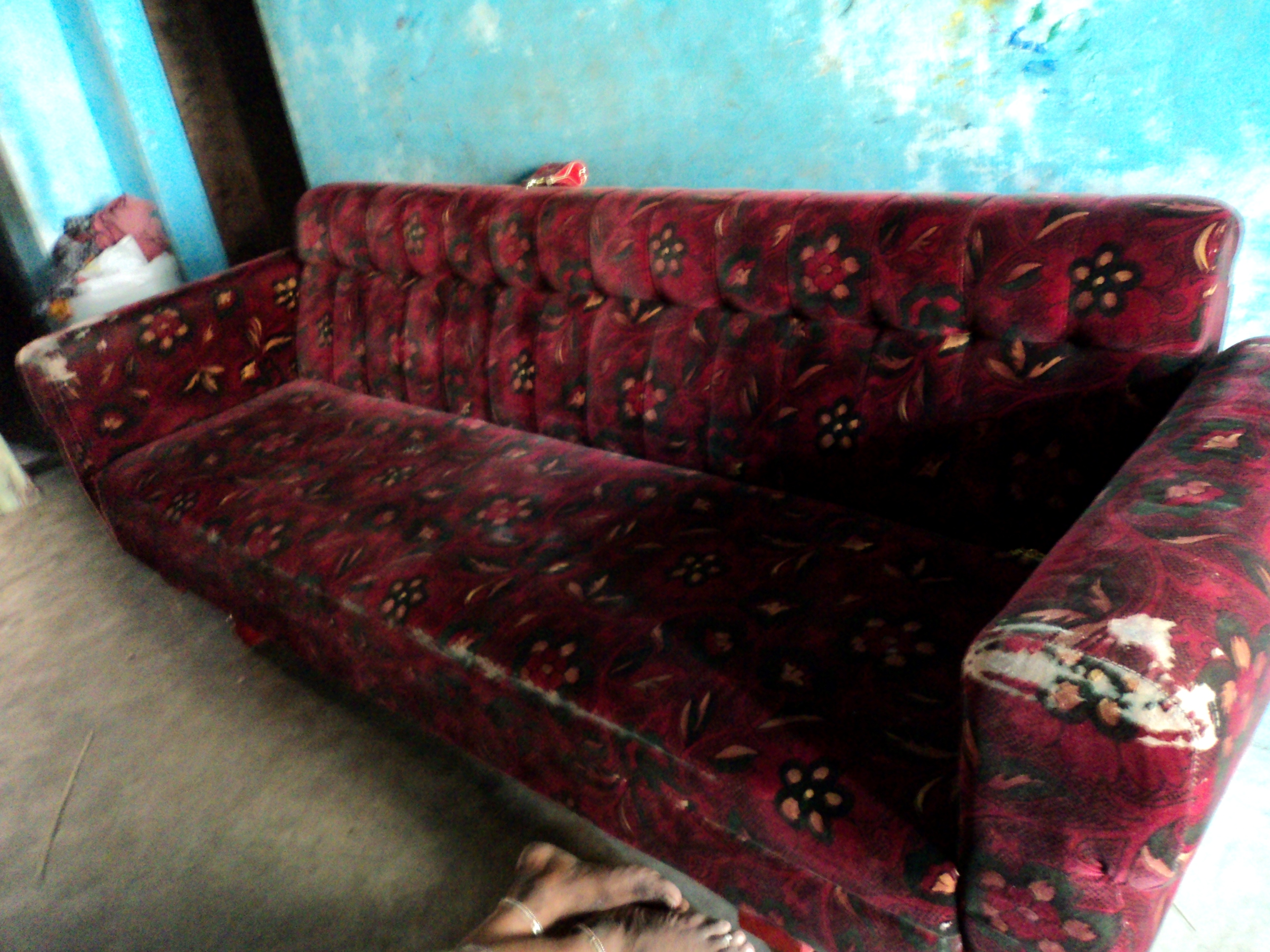 one of the sofa model in Tamil Nadu